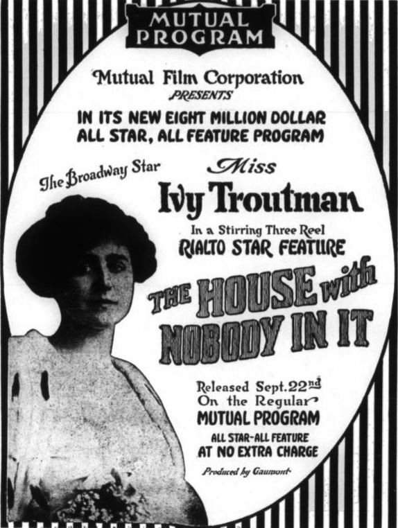 Advertisement for the American drama short film The House With Nobody in It (1915) with Ivy Troutman, on page 24 of the August 27, 1915 Variety.